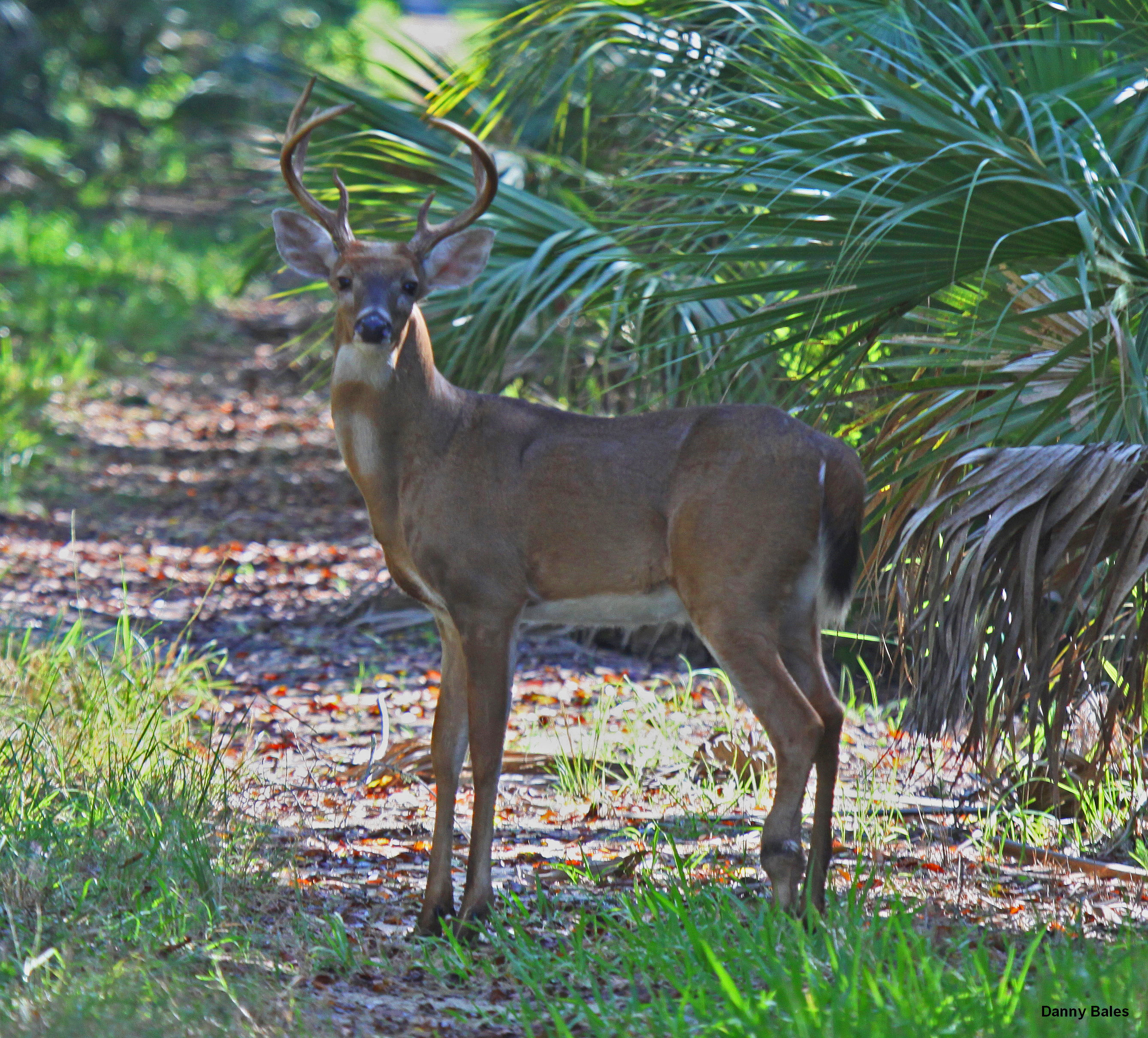 Used with Permission from Danny Bales. Deer on Merritt Island. NEWS RELEASE U.S. Fish and Wildlife Service Merritt Island National Wildlife Refuge FOR IMMEDIATE RELEASE September 17, 2013 Deer Hunt Proposed for Merritt Island National Wildlife Refuge Public Invited to Comment on Draft Environmental Assessment The U.S. Fish and Wildlife Service is proposing to allow a quota deer hunt which will include unlimited take of feral hogs on about 6,000 acres on the Merritt Island National Wildlife Refuge (NWR) in Titusville, Fla. The public is invited to comment on the Draft Environmental Assessment of the proposed hunt. Comments received from the public scoping meeting on July 8, 2013 and the three-week comment period in July were incorporated into the Draft Environmental Assessment. This is another opportunity for the public to comment before the Final Environmental Assessment is developed. The hunt area being proposed is north of Haulover canal on both sides of State Road 3 within the refuge boundary. While waterfowl hunting has been a traditional use on the refuge since the 1960’s, the proposal expands the hunting program to include deer and feral hogs. Feral hogs are a nuisance, invasive species on the refuge causing damage to roads, dikes, and trails and occasionally destroying sea turtle nests. Wildlife vehicle strikes are common along major roads on the refuge and half of strikes involve feral hogs. The proposed hunt will not eradicate or control feral hog populations, but will remove some animals and possibly lessen the amount of damage and vehicle strikes. The U.S. Fish and Wildlife Service is the principal federal agency responsible for conserving, protecting and enhancing fish, wildlife and plants and their habitats for the continuing benefit of the American people. For more information on our work and the people who make it happen, visit and download photos from our Flickr page at XXXX